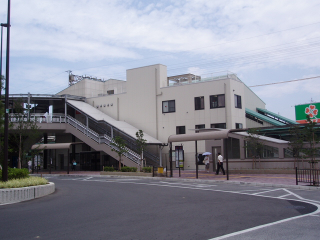 Nankai Electric Railway Kōya Line Kitanoda Station Building